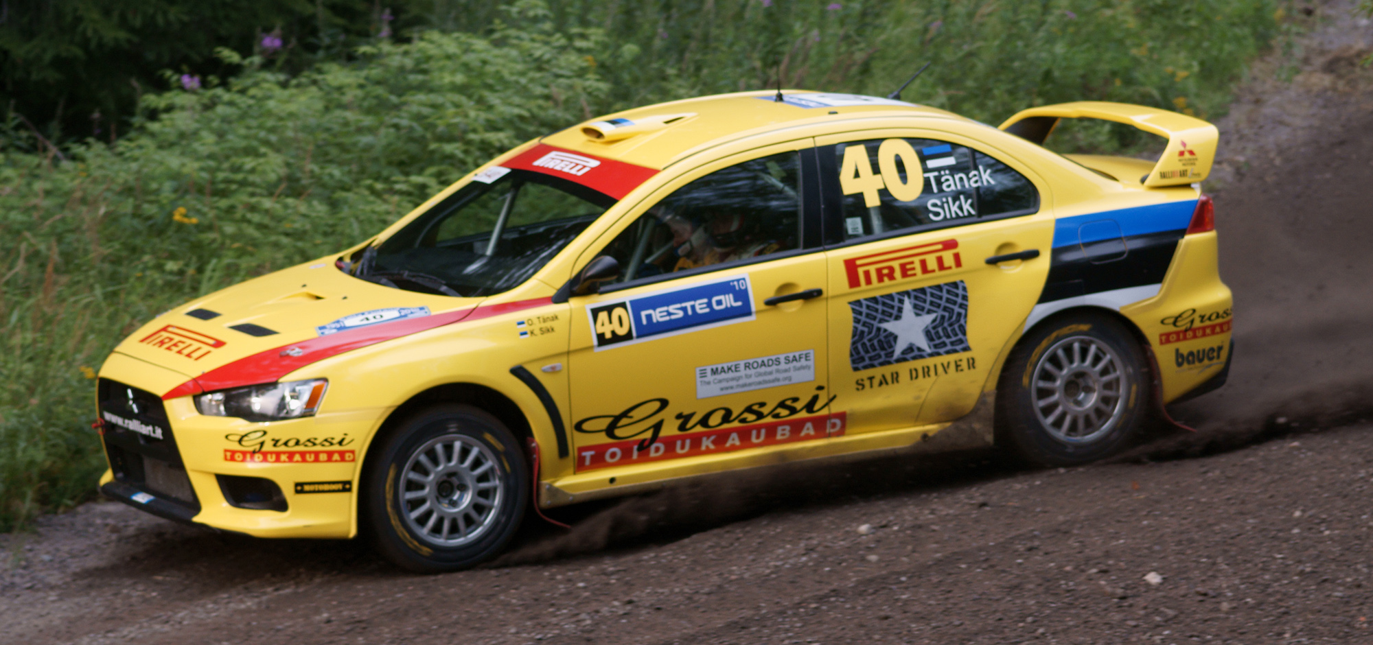 Ott Tänak driving at Laajavuori special stage, Rally Finland 2010.